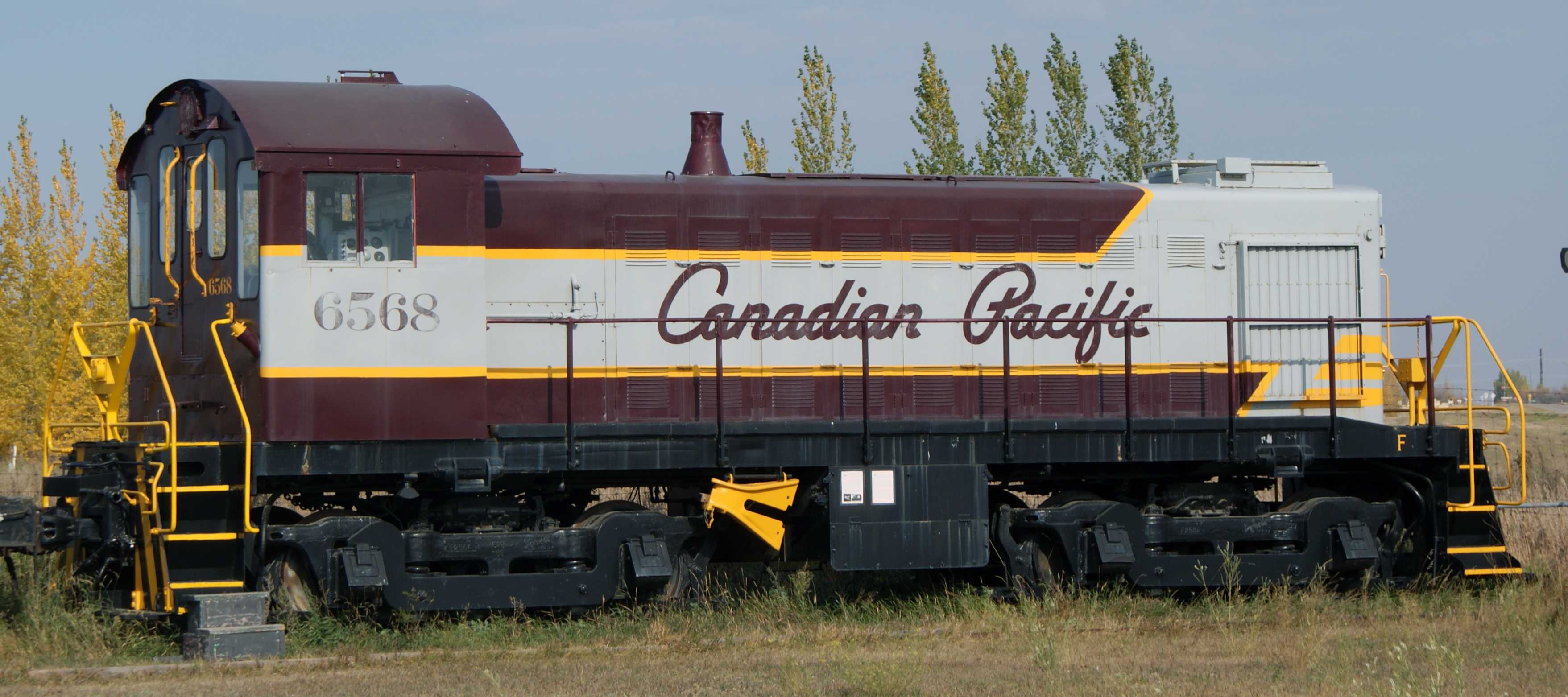 Saskatchewan Railway Museum Canadian Pacific Railway S3 diesel electric locomotive #6568 constructed in 1957 by Montreal Locomotive Works. According to the SRM, it has a 660 horsepower McIntosh and Seymore 539 diesel engine which operates a General Electric generator. The electricity produced is 600 volts direct current which turns four traction motors driving each axle. This locomotive was used in Sutherland CPR train yards. This particular railway locomotive is a light switcher and was used to switch cars between tracks in the Sutherland train yards.